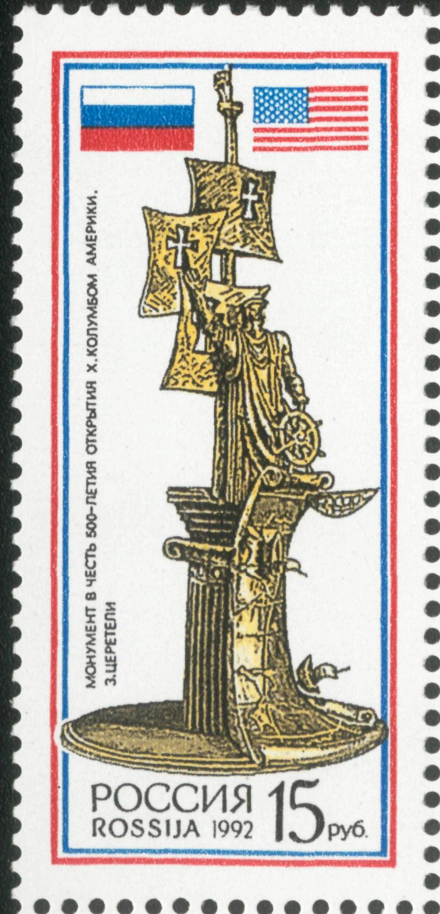 Monument in honour of the 500th anniversary of America's discovery by Christopher Columbus.